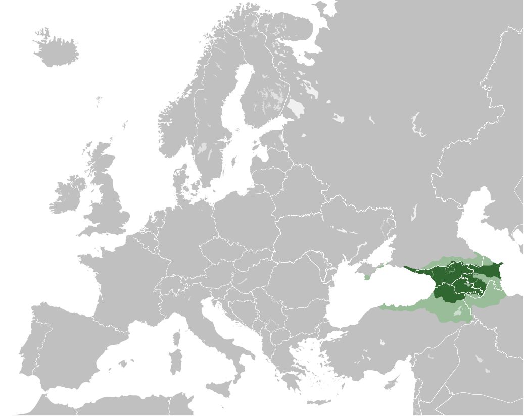 The territories that were at one time or another part of the Georgian Kingdom. Territory under effective control (1213). Tributaries, protectorates and sphere of influence.